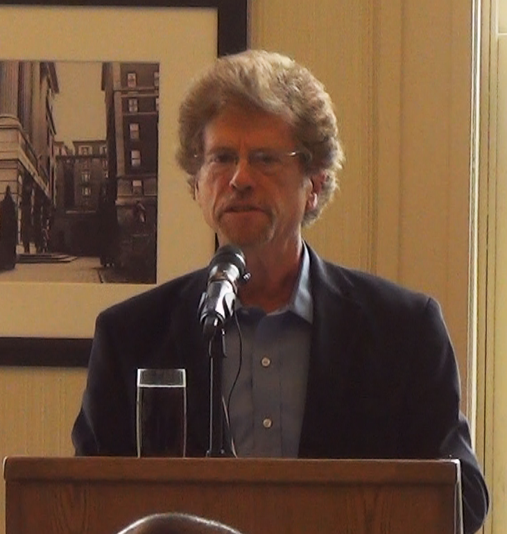 speaking at CITI State of Telecom 2013 at Columbia Faculty House NYC on September 26 2013